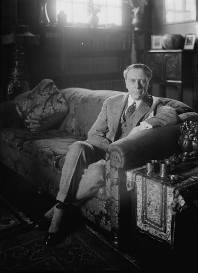 Richard Hageman (1882-1966), composer, pianist, conductor, and actor